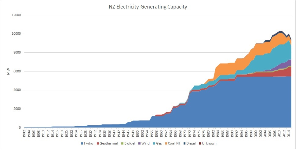 Graph of New Zealand electricity generation capacity by year. Data from NZ Electricity Authority Market Information website wholesale dataset for generation Nov 2017. Minor amendments to data for graphing purposes.